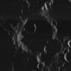 Helberg crater, on the moon, while at the lunar termnator.